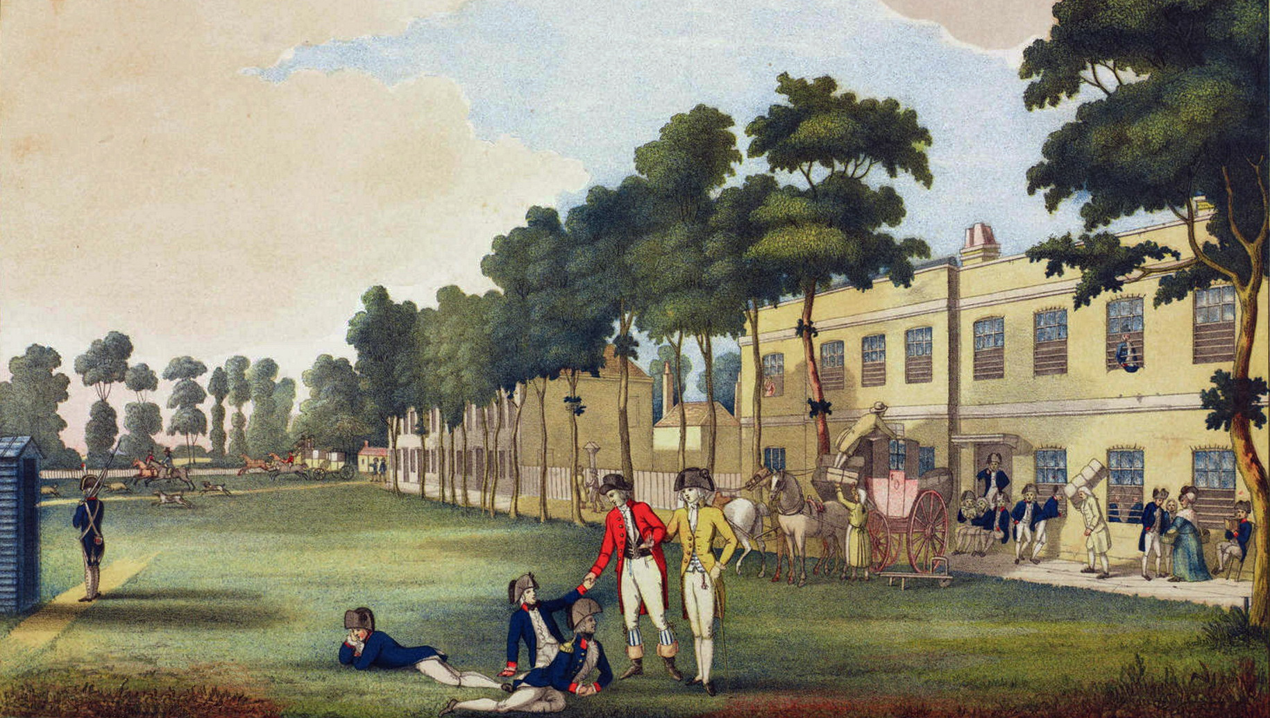 View of cadets of the Royal Military Academy at Woolwich preparing to leave the cadet barracks in the Warren, to pass the summer vacation with their friends. Lithograph of 1851 by unknown artist, published by Standidge & Co. Collection of the London Metropolitan Archives.